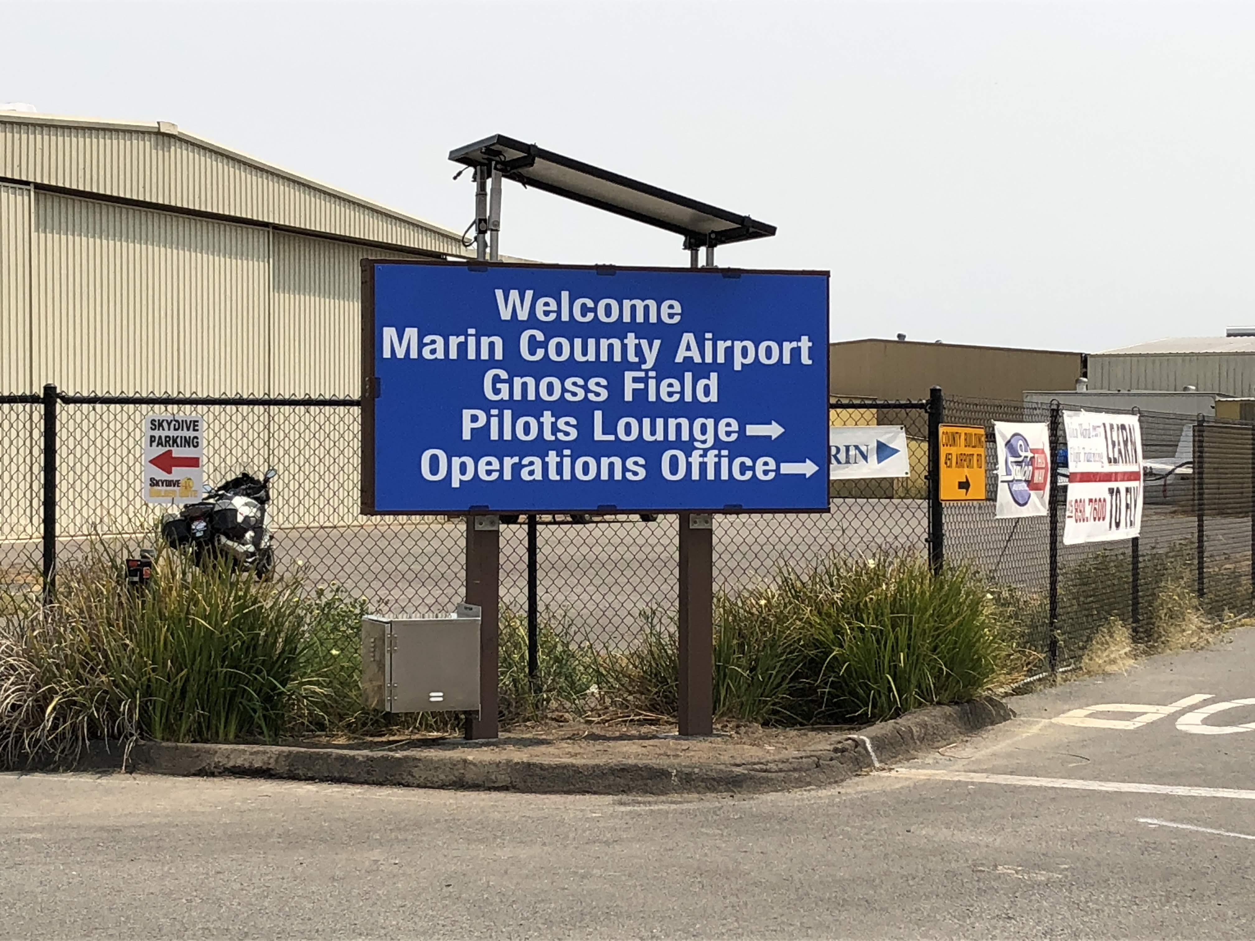 The sign installed as an Eagle Project at Marin County Airport